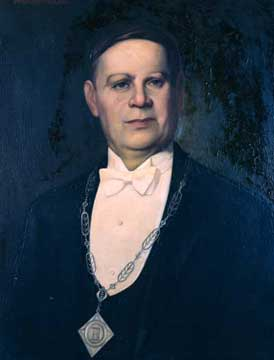 Portrait image of the classical philologist Chariton Charitonidis by Pavlos Pantelakis, oil painting on canvas, 72X55, 1955